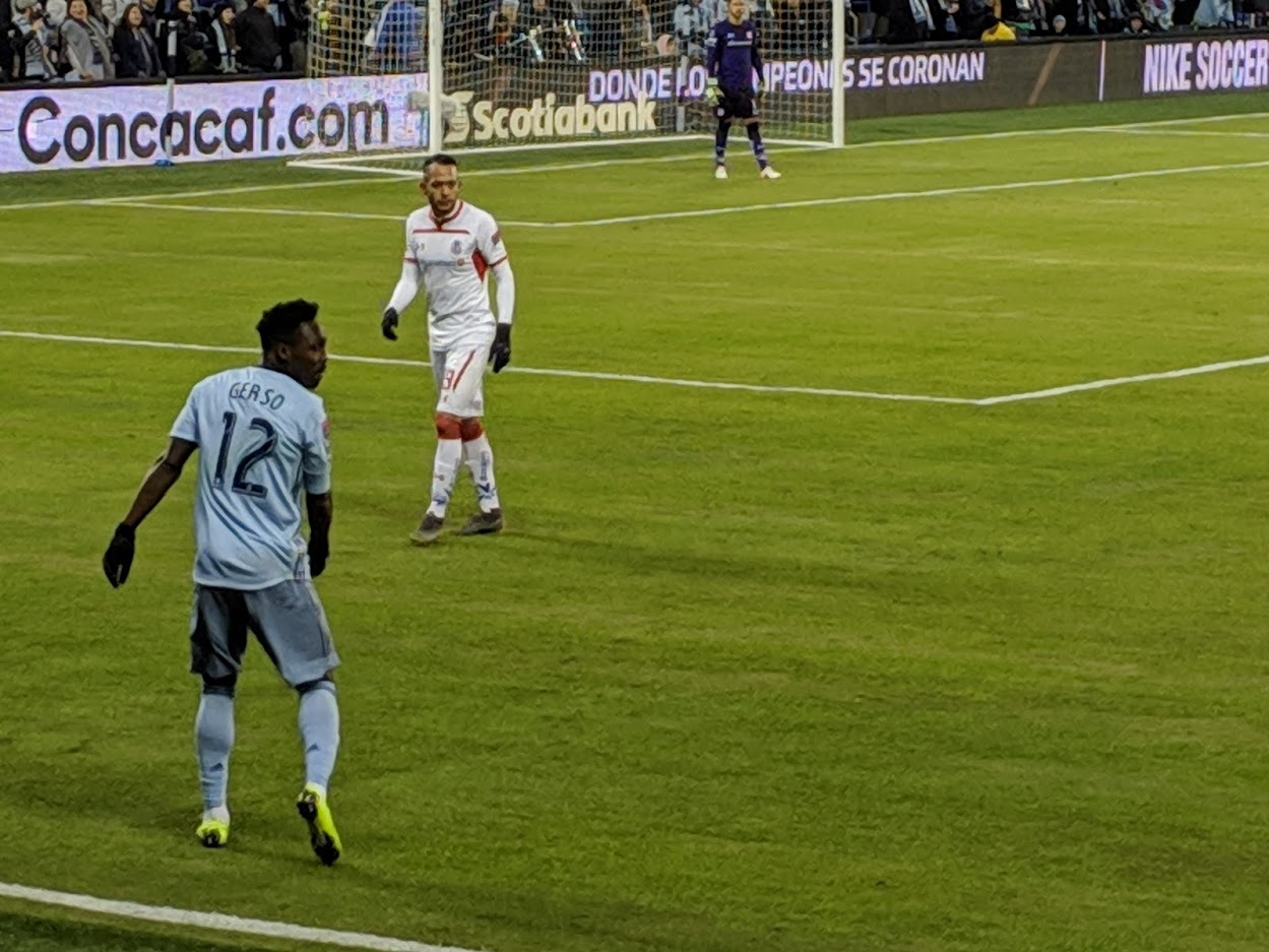 Gerso Fernandes (foreground) against Toluca. Feb. 21st 2019.